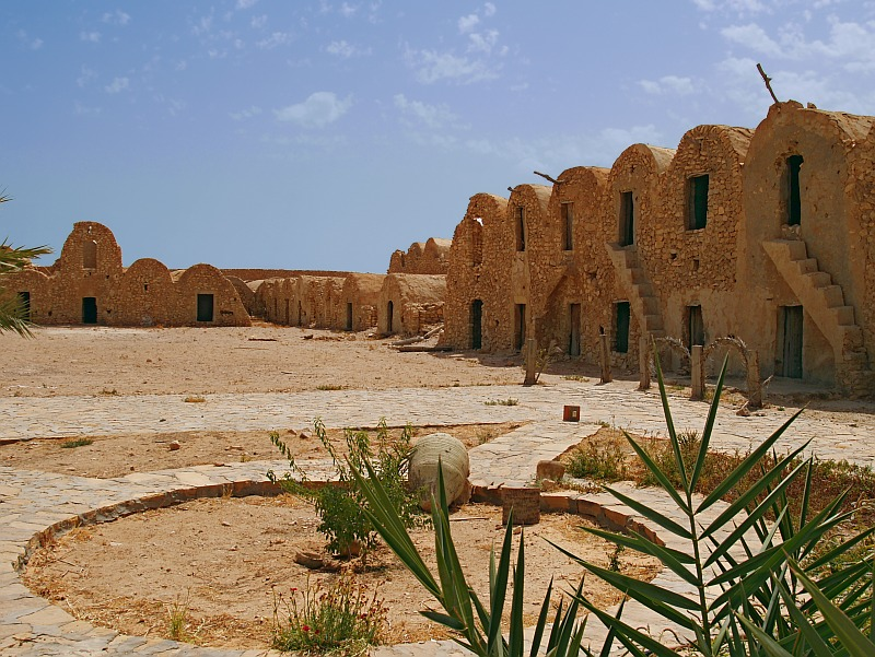 Ksar El Ferch, South of Ghomrassen and North of Tataouine